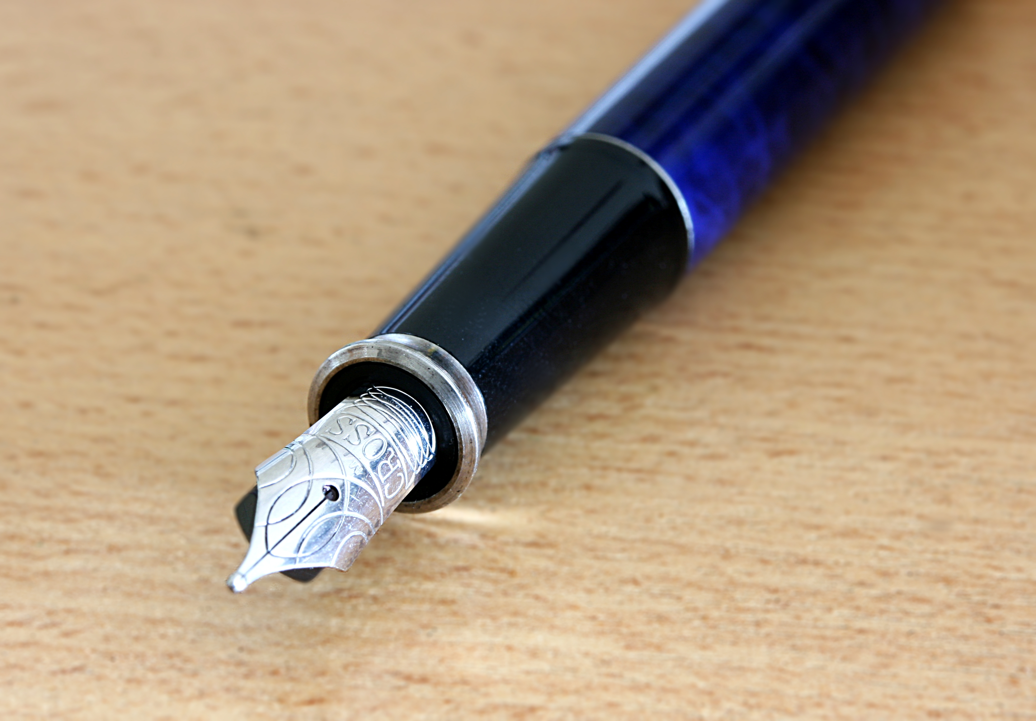 Cross Pen